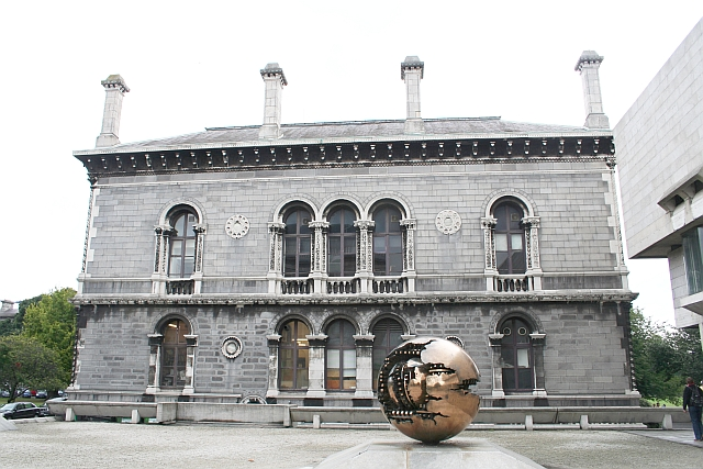 Museum Building, New Square, Trinity College, Dublin Built after a competition in 1852. According to: "With Byzantine, Lombardesque and Moorish influences evident, the Museum Building is a product of the eclectic revival of Western Architecture." Although still called the Museum building it is the home of Geography, Geology and some engineering departments. The Sculpture is Sphere with Sphere by Arnaldo Pomodoro.